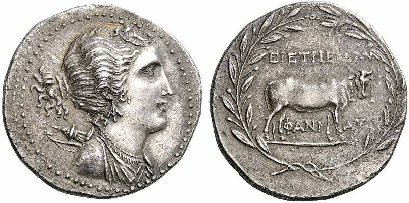 Euboia, Eretria. After 180 BC. Tetradrachm (Silver, 16.95 g 9). Bust of Artemis to right, her hair tied with a ribbon, wearing a necklace, a pendant earring and a chiton, and with her bow and quiver over her left shoulder. Rev. ERETRIEWN / FANIAS Steer standing right, its head, adorned with a taenia, turned towards the viewer; all within laurel wreath. BCD Euboia 340 (this coin) = KF 241 = M. Thompson, The Beginning of the Athenian New Style Coinage, MN 5 (1952), p. 27, 2 and pl. VIII, 4 (this coin). Very rare. With a wonderful bust of Artemis of full Hellenistic style, and on a broad flan. Lightly toned. Extremely fine. From the Spina collection and that of BCD, ex Lanz 111, 25 November 2002, 340, from the collection of C. Gillet, 'Kunstfreund', Bank Leu/Münzen und Medaillen, 28 May 1974, 241, and from the Anthedon Hoard of 1935 (IGCH 223). A remarkably impressive example of quite how beautiful Hellenistic stephanophoric tetradrachms can be! The bust of Artemis, with her disproportionally large head, is a masterpiece - the coin’s engraver must have believed the coin’s user would have preferred a good look at the goddess’s face! Interestingly enough, the name of the magistrate who signs this coin, Phanias also turns up at Athens at roughly the same time (probably 162/1 = Thompson 9a): it would be intriguing if they were actually the same individual (albeit unlikely). NOMOS3, 87